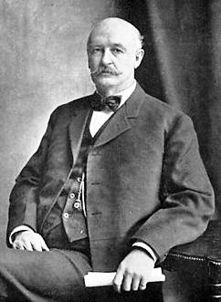 Photograph of Judge David Patterson Hatch